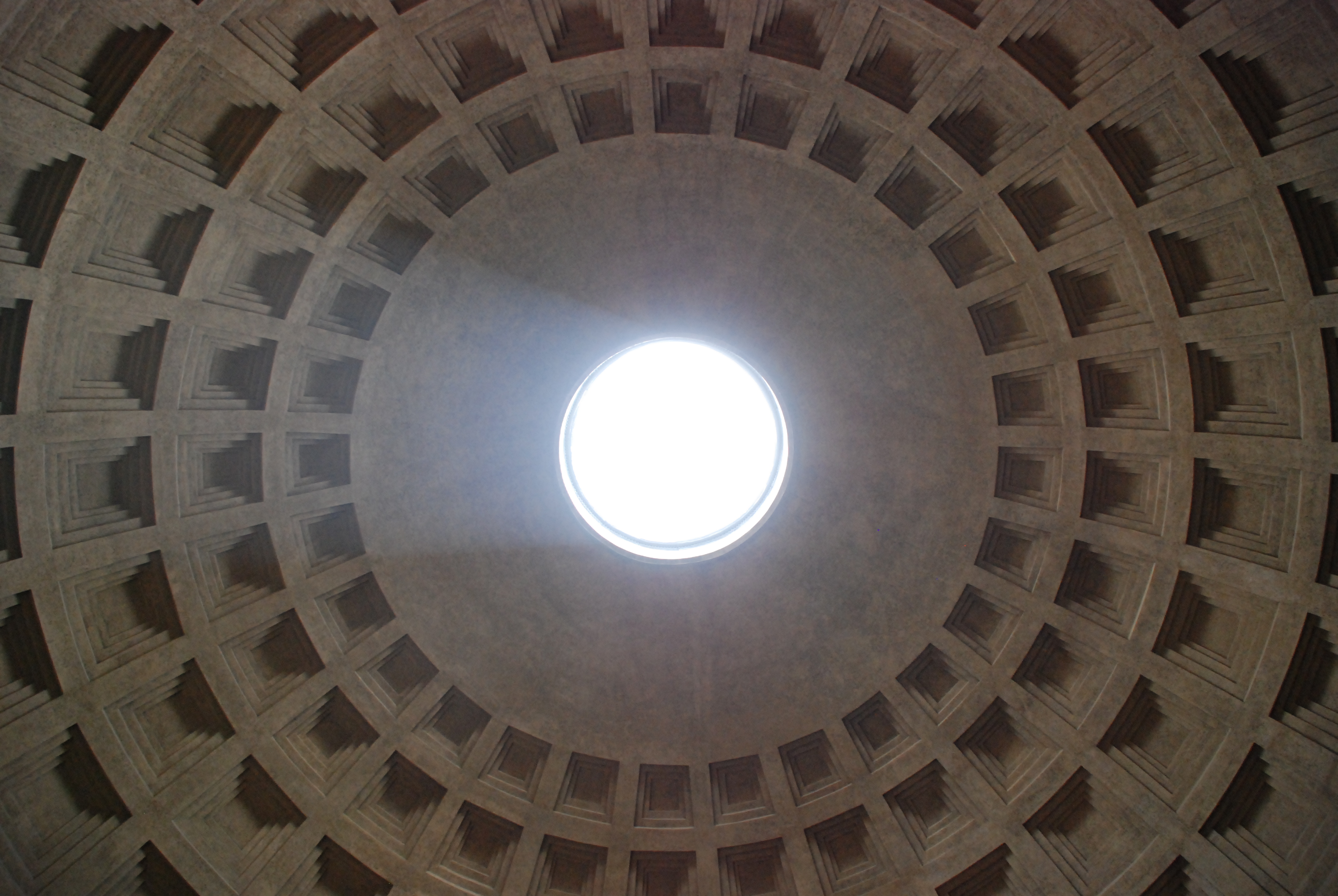 The interior of the dome of the Pantheon.